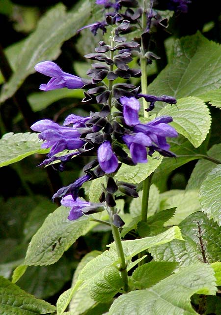 Photo of Salvia guaranitica at the San Francisco Botanical Garden